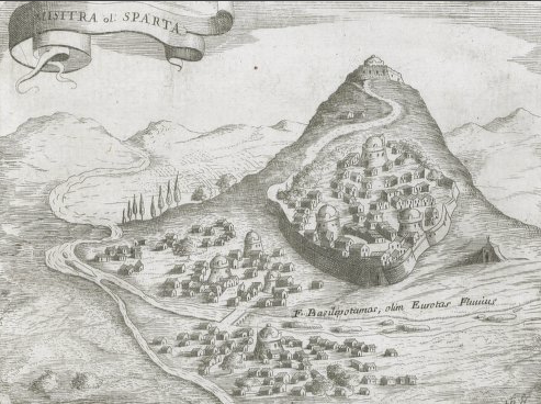 Mistra and Sparta Coronelli, Vincenzo Maria